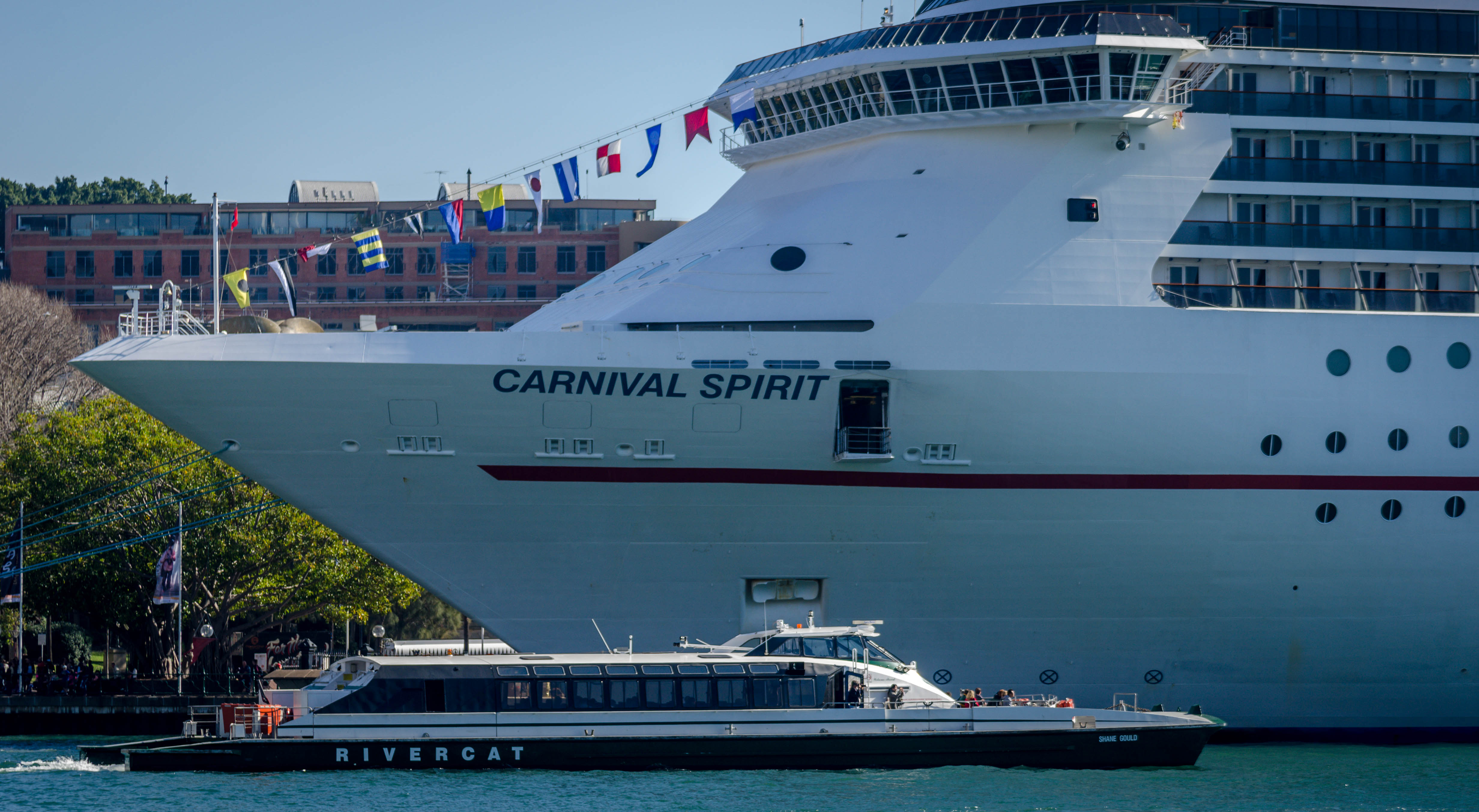 Sydney Ferry Shane Gould departs Circular Quay